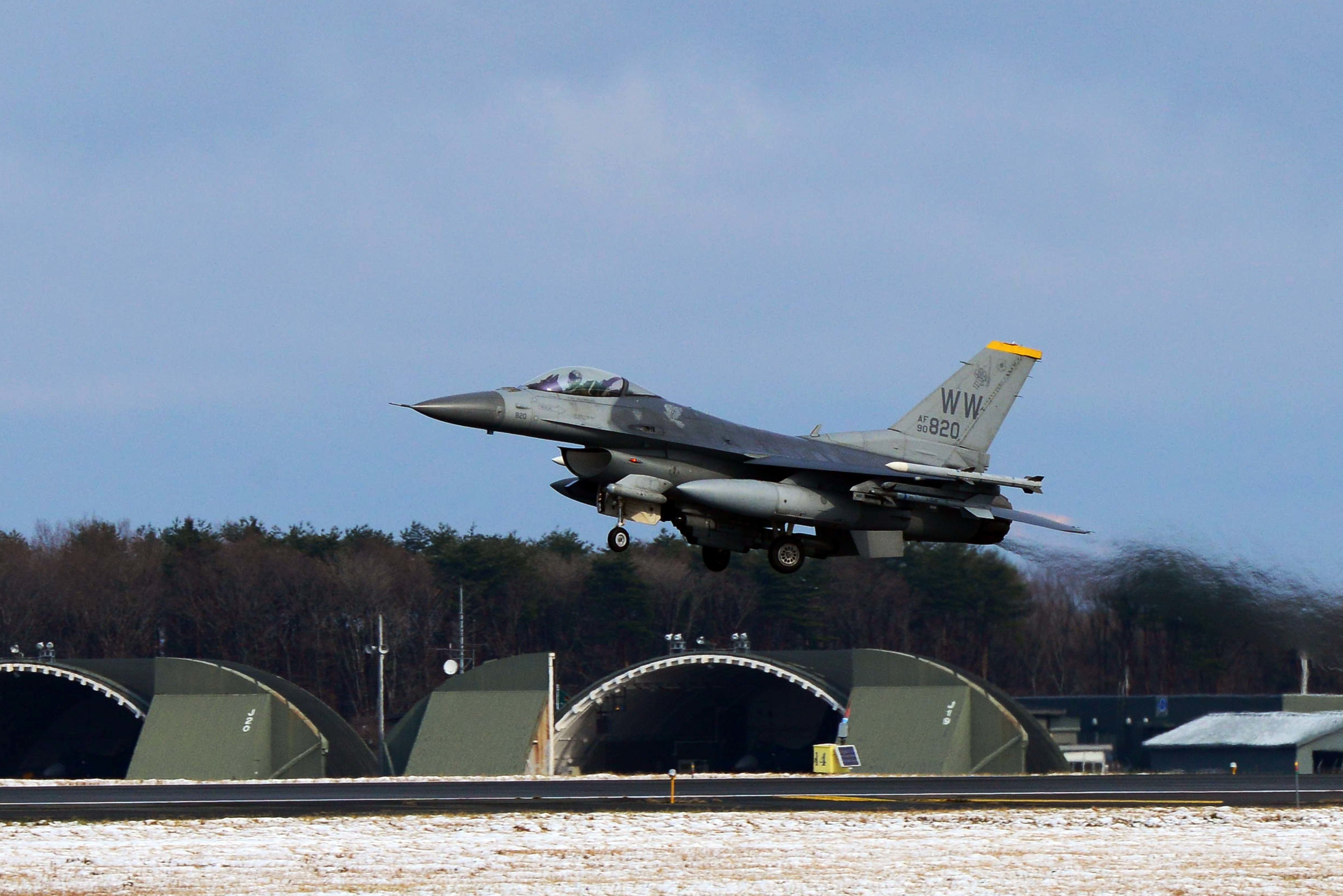 An F-16 Fighting Falcon assigned to the 35th Fighter Wing departs Misawa Air Base, Japan, Dec. 4, 2014. Numerous F-16s left Misawa for Osan Air Base in support of Beverly Sunrise 15-1, an exercise that deployed more than 200 Airmen and incorporated five Pacific Air Forces bases. (U.S. Air Force photo by Staff Sgt. Derek VanHorn/Released) Unit: 35 Fighter Wing Public Affairs